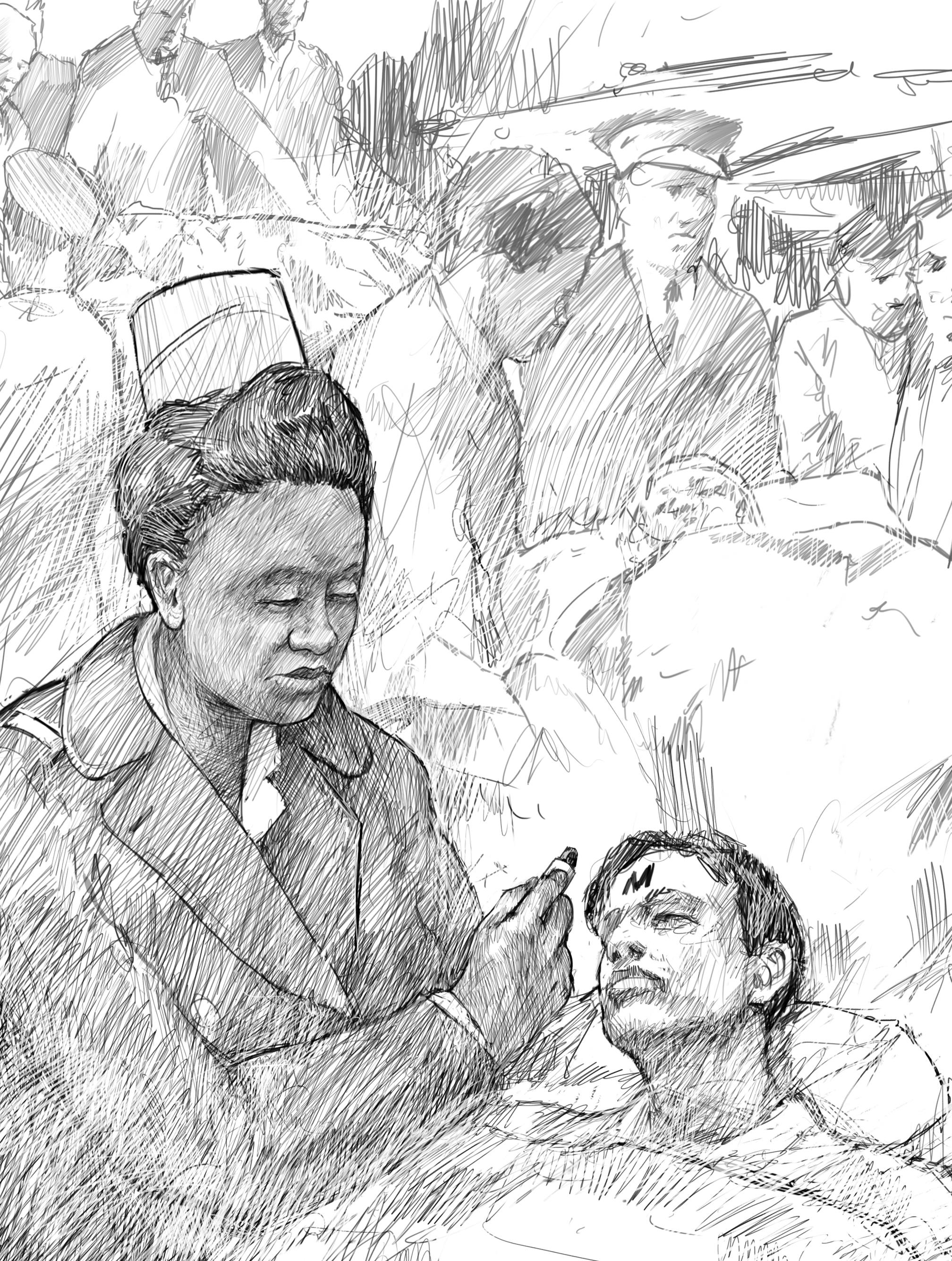 Lt Abbie Sweetwine, "The Angel of Platform 6", African-American nurse treating injured during the 1952 Harrow and Wealdstone rail crash. VIRIN: 160128-F-EX708-007.JPG